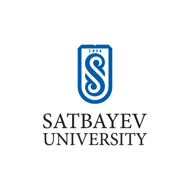 Satbayev University Logo